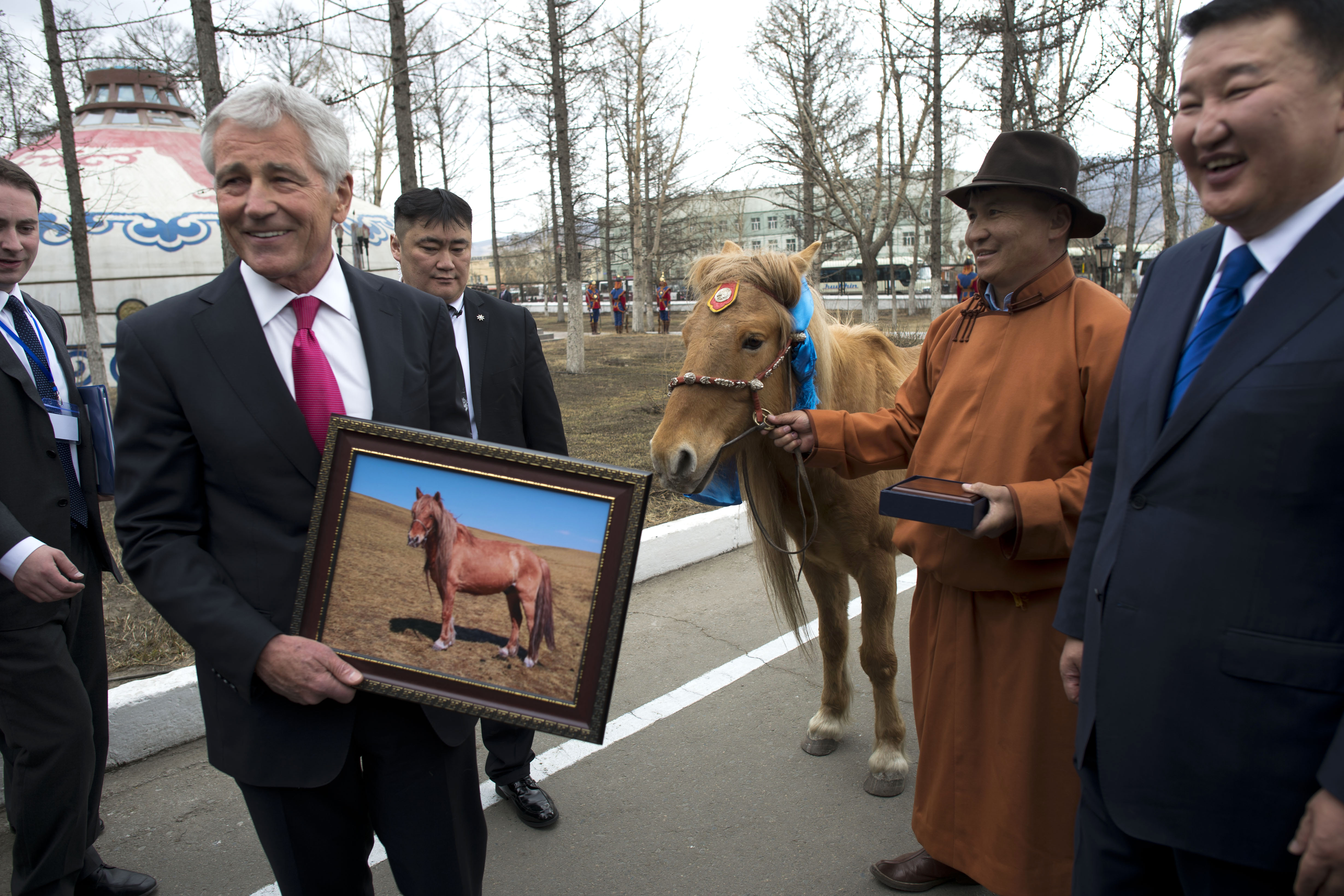 U.S. Defense Secretary Chuck Hagel holds a photograph of his horse as Mongolian Defense Minister Dashdemberal Bat-Erden looks on at the Mongolian Ministry of Defense in Ulaanbaatar, Mongolia, April 10, 2014. The horse is a traditional Mongolian gift to visiting dignitaries and is renamed during the gifting ceremony. Hagel renamed the horse Shamrock after his high school mascot.